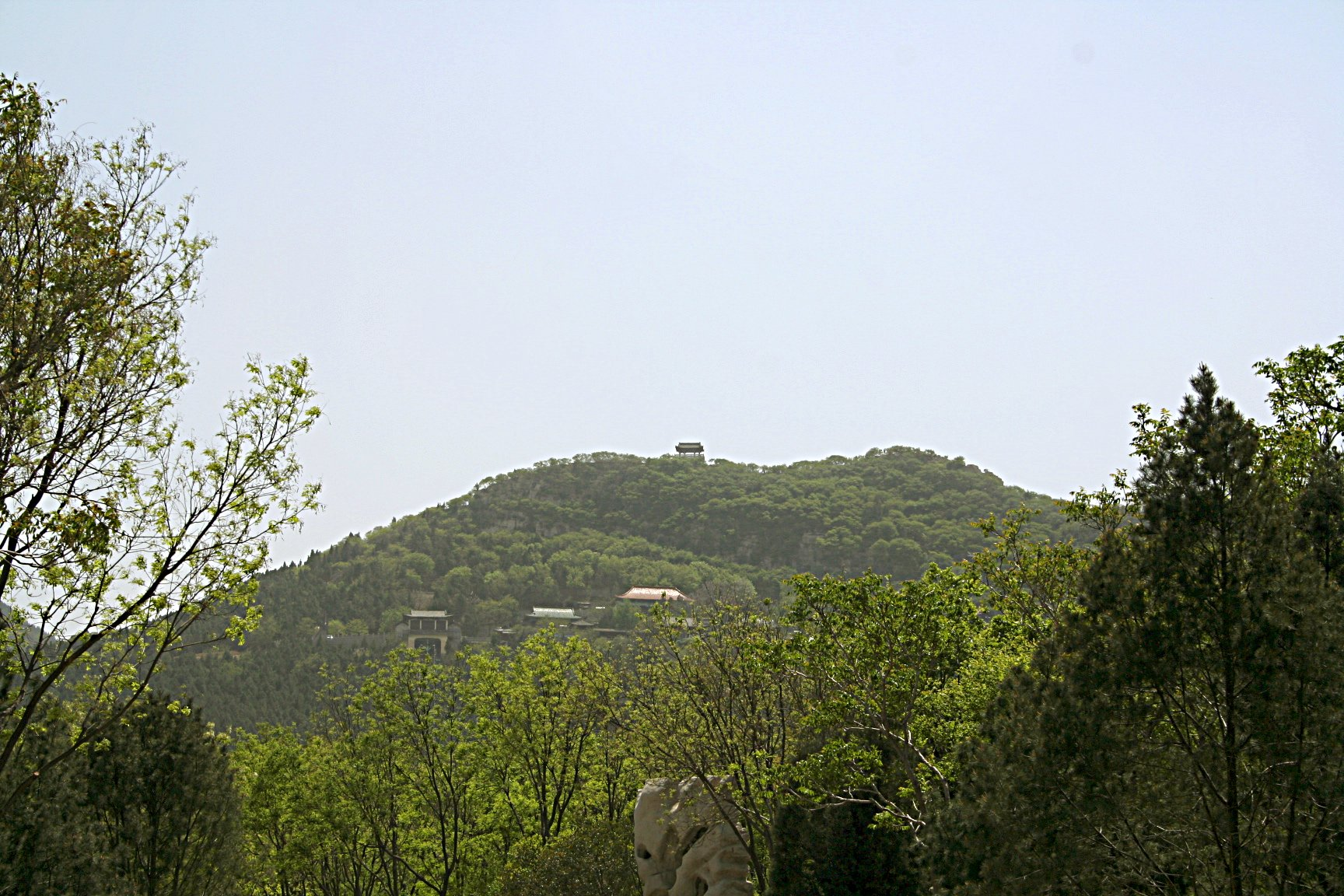 Northern Flank of the Thousand Buddha Mountain, Jinan, Shandong Province, China.